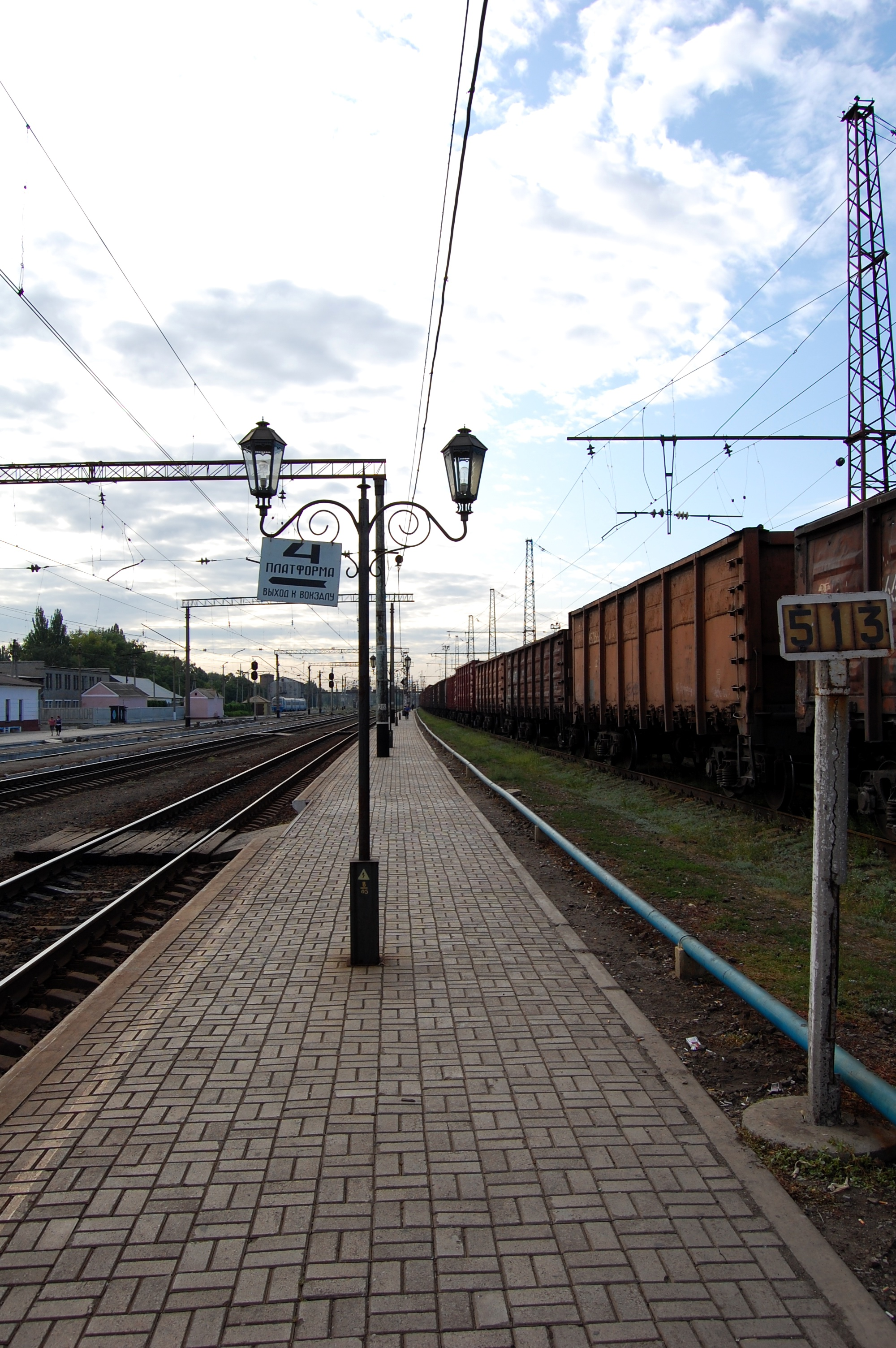 Railway station Mykytivka in Gorlivka town